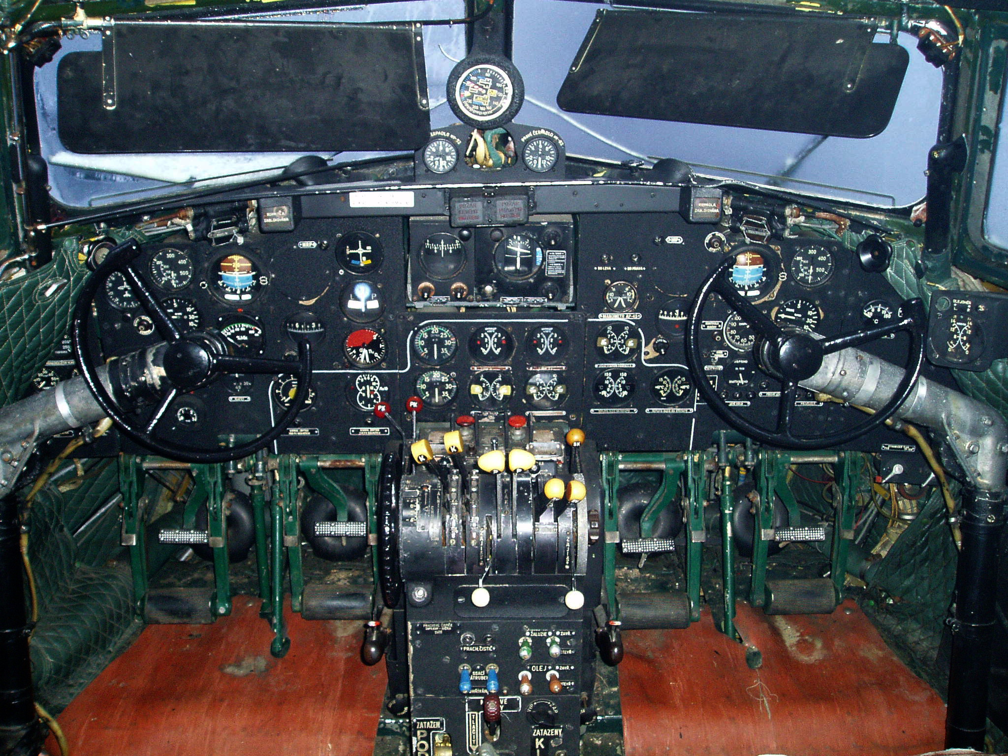 Cockpit of Avia Av-14 (Czechoslovak-made Ilyushin Il-14), Bubovice airfield, Czech Republic